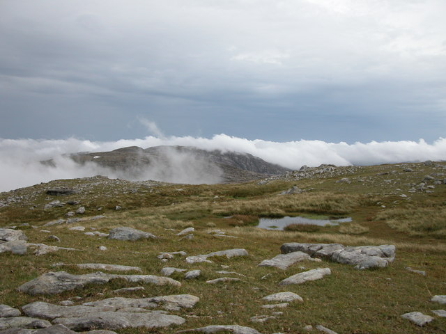 View from Croaghgorm. Typical view from the highest point (674m) in the Blue Stack Mountains looking ENE towards Ardnageer.